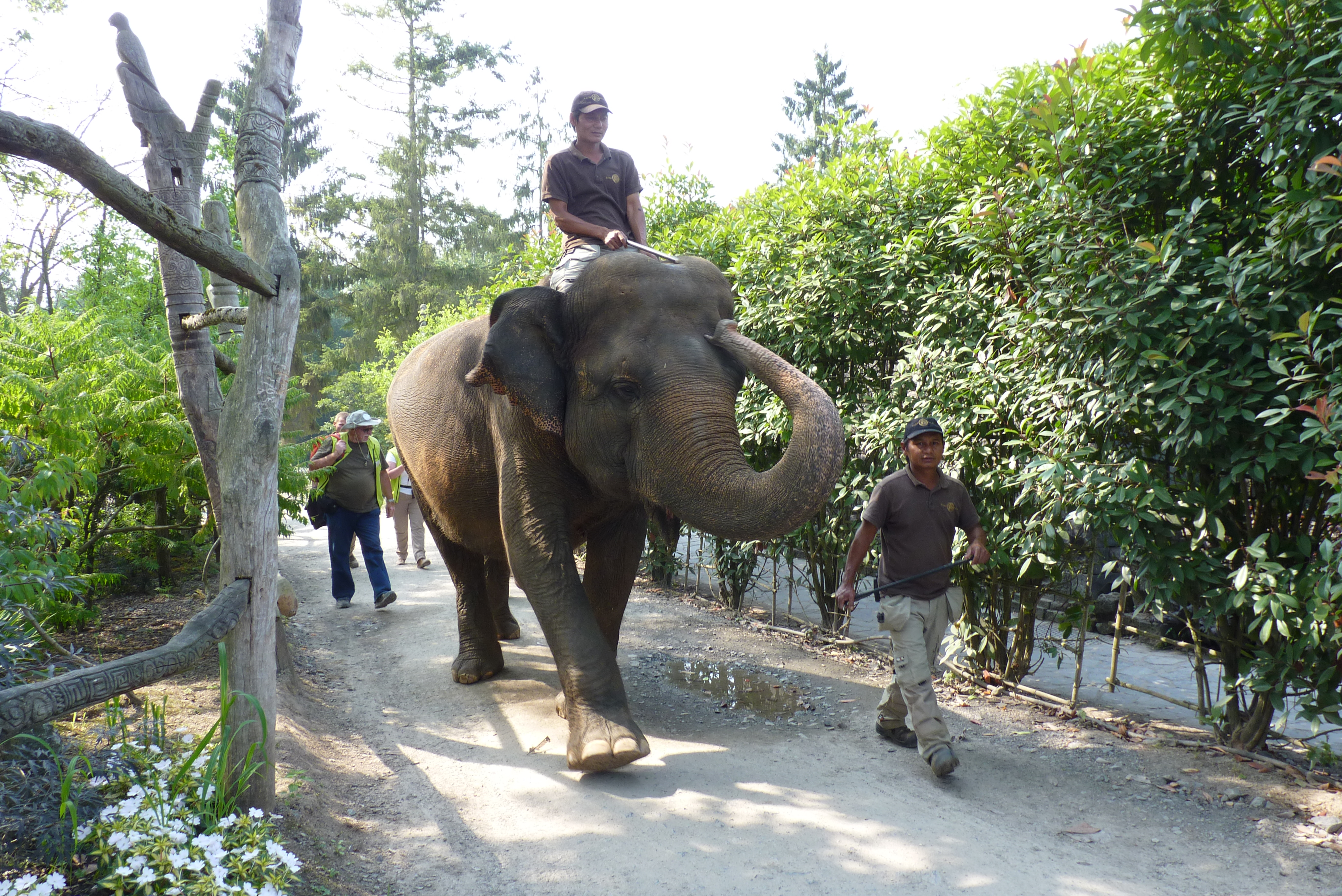 Pairi Daiza elephant walk